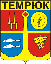 Temryuk (Krasnodar krai), coat of arms (1976)